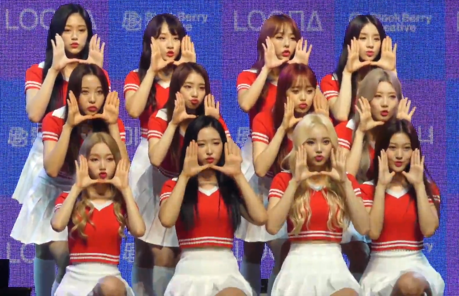 Loona at their debut showcase on August 20, 2018